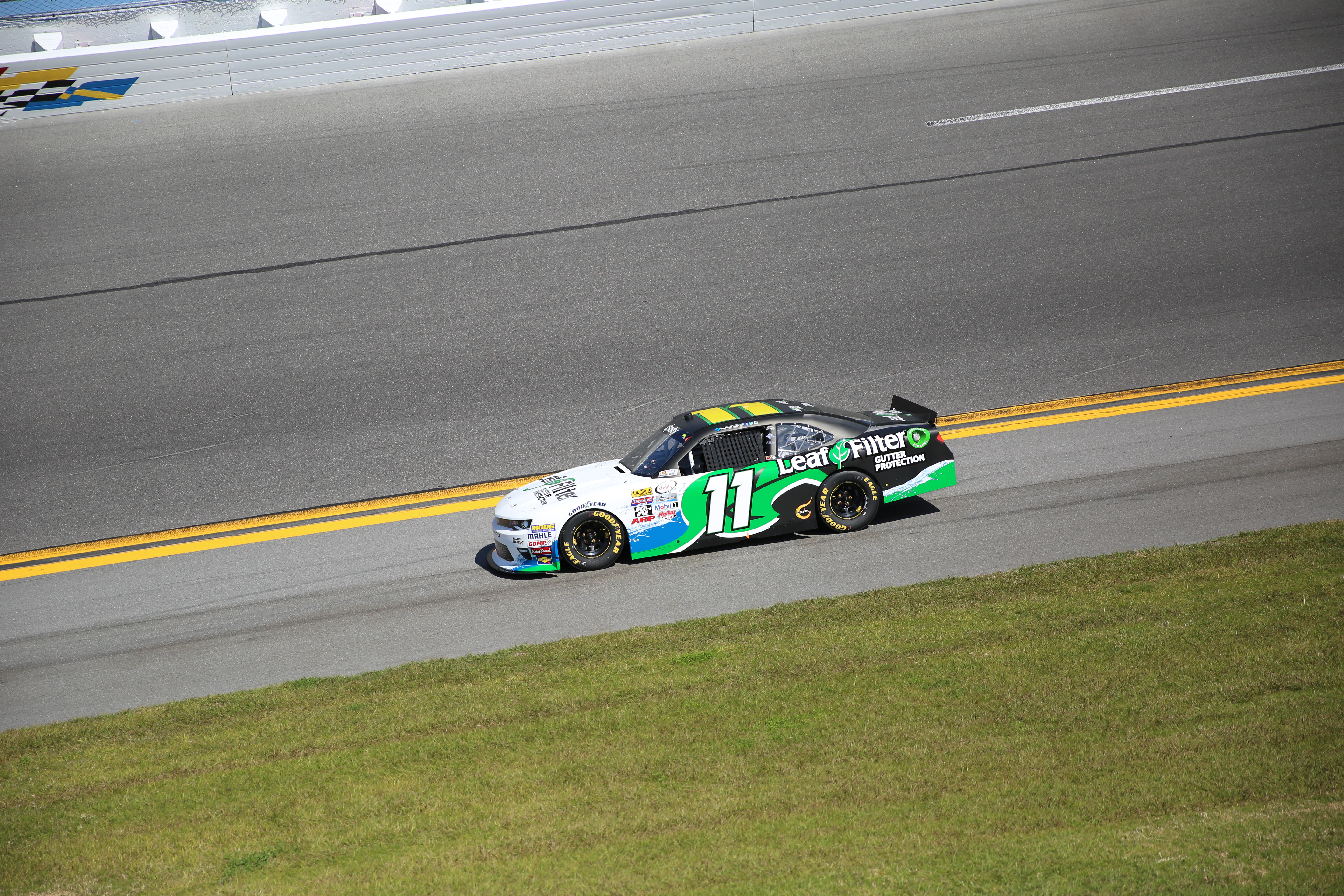 Blake Koch pilots the No. 11 LeafFilter Chevy Camaro in Daytona.